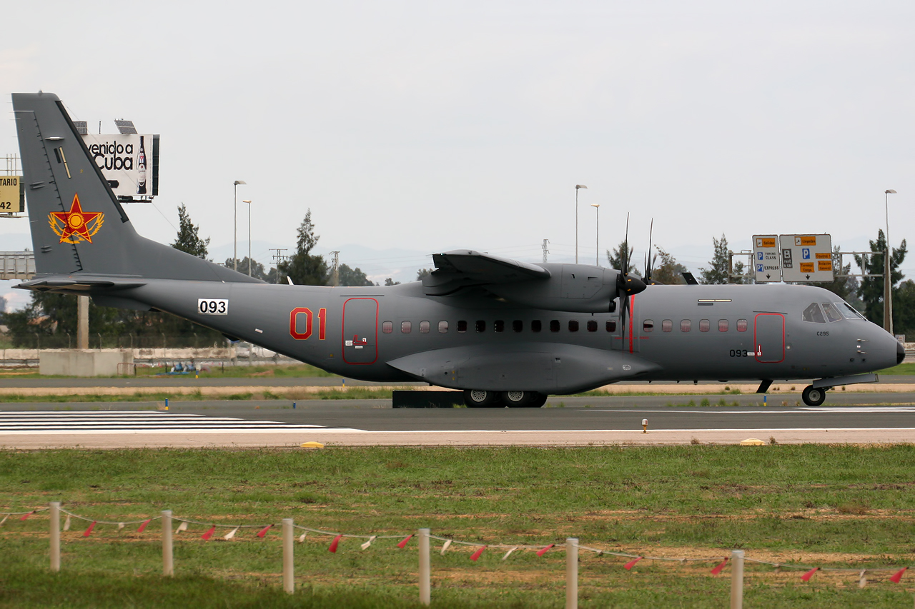 First C295 for Kazakhstan Sevilla LEZL/SVQ Airport